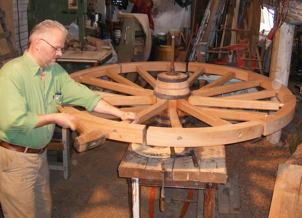 Wheelwright W. Verdoorn at work